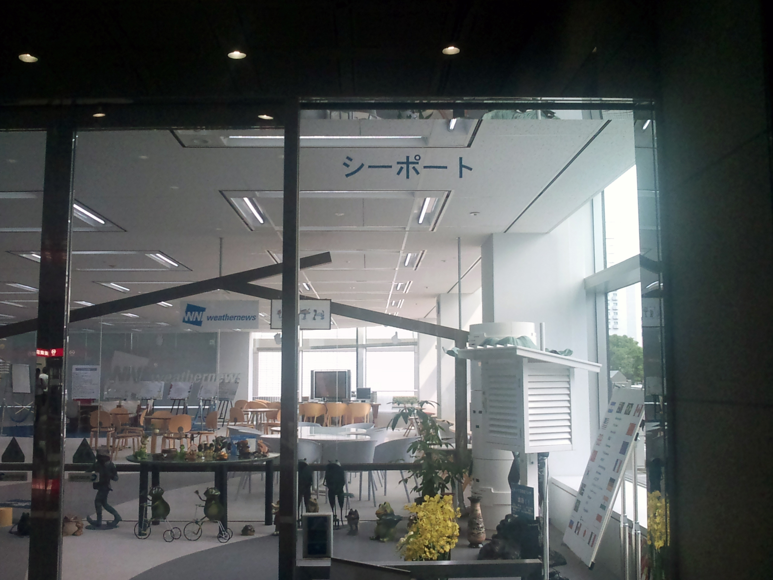 C-Port Weathernews Inc. in Makurari, Chiba.